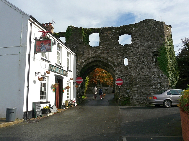 Boot and Shoe pub and Town Gatehouse The pub has been going since 1816 or earlier - for history . The gatehouse (built c.1300) is the remaining one of three entrances to the medieval walled borough of Kidwelly .